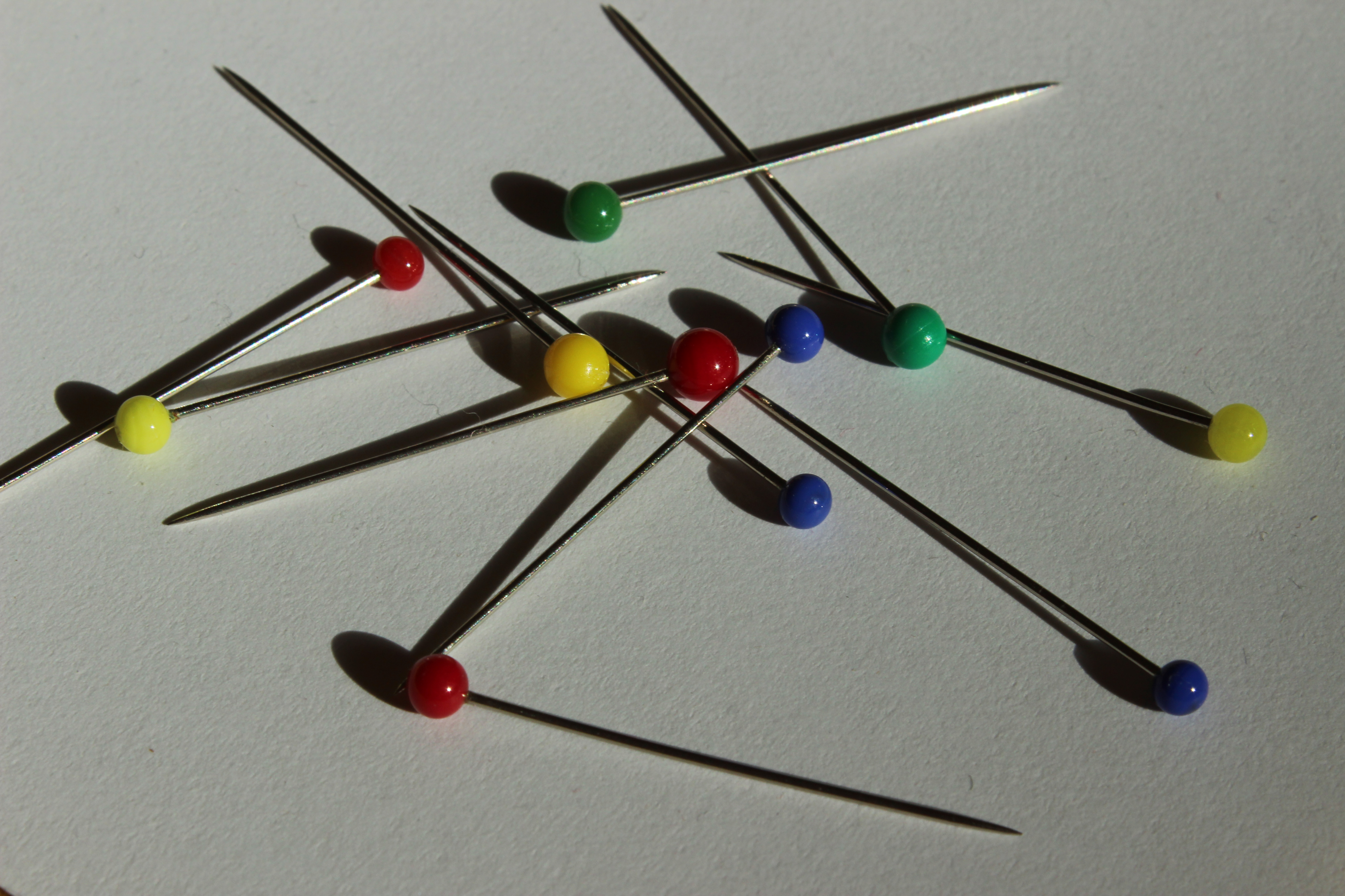 A couple of sewing pins on a sheet of paper.